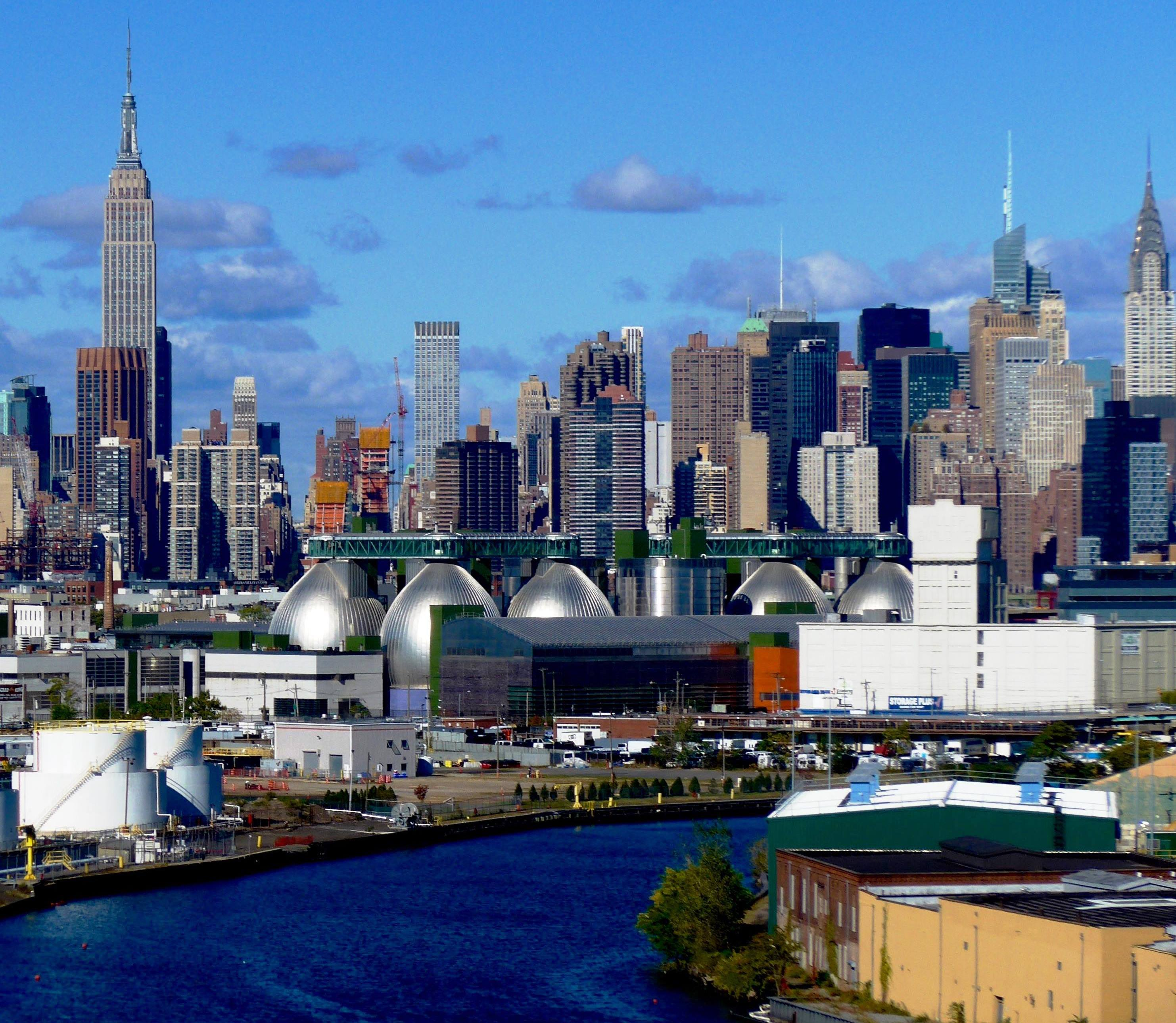 NewtownCreekWaterTreatmentPlantSite: Newtown Creek Wastewater Treatment Plant